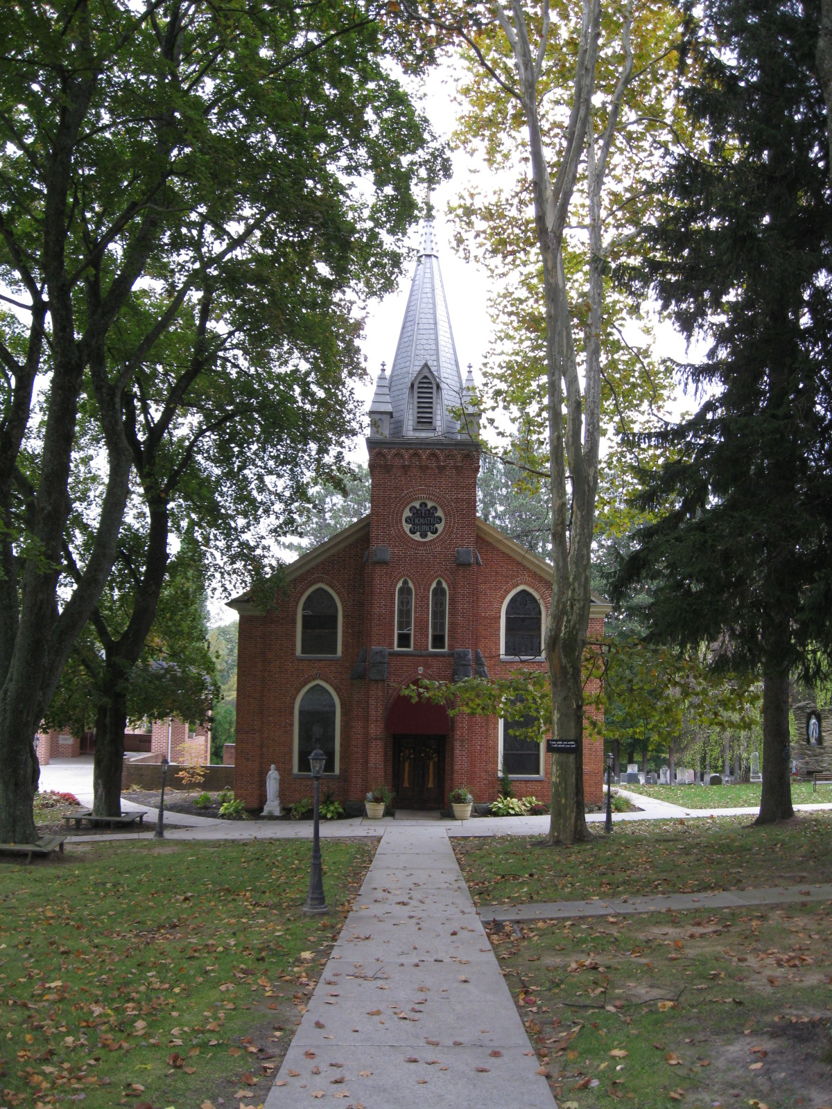 St. Ignatius Loyola Catholic Church in Aspers, Adams County, Pennsylvania